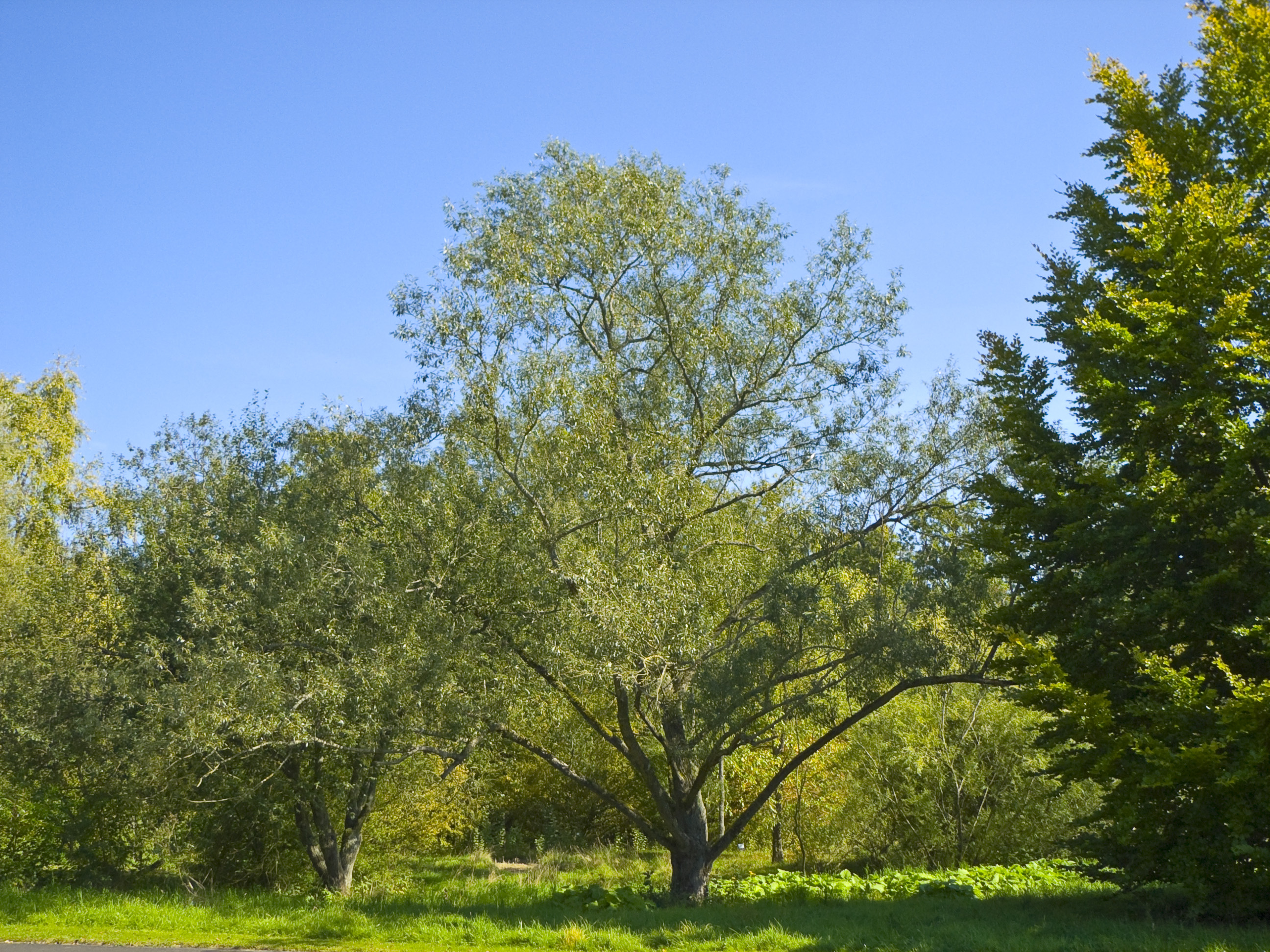 Crack Willow (Salix fragilis) in the New Botanical Garden Marburg, Hesse, Germany